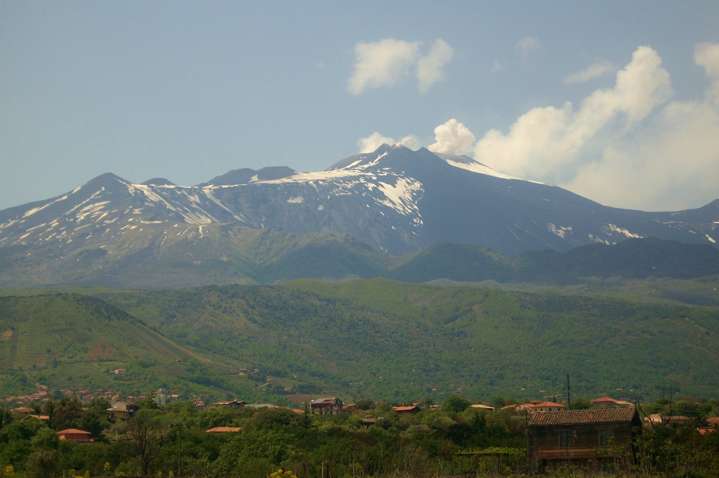 Panarama of Mount Etna, Sicily